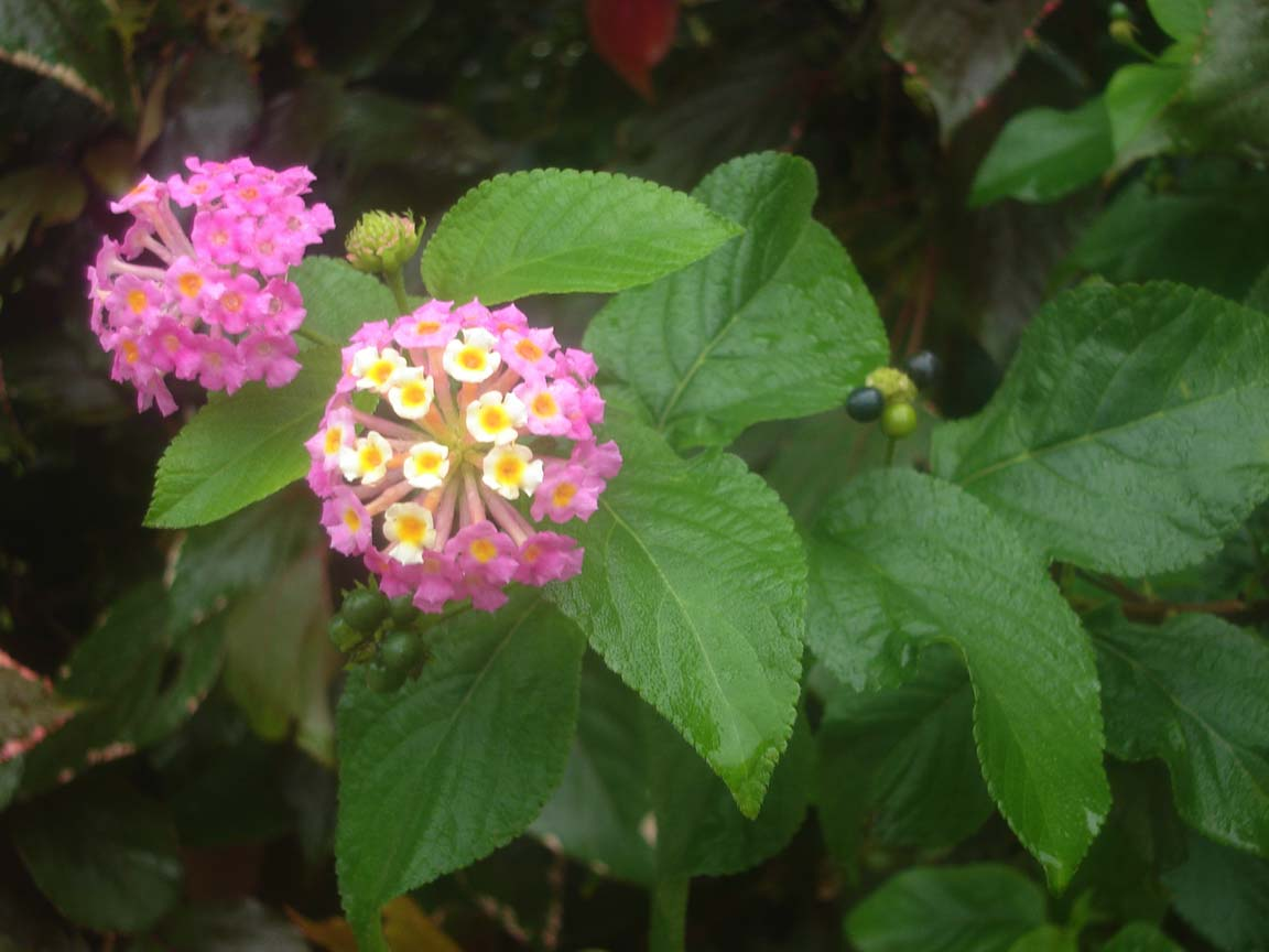 Lantana camara, flowers, leaves, fruits. A weed (talatala) in Tonga